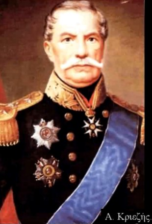 Portrait of Antonios Kriezis (1796-1865), prime minister of Greece. War Museum, Athens, Greece.